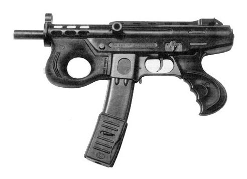 Left side view of the Agram 2000 submachine gun